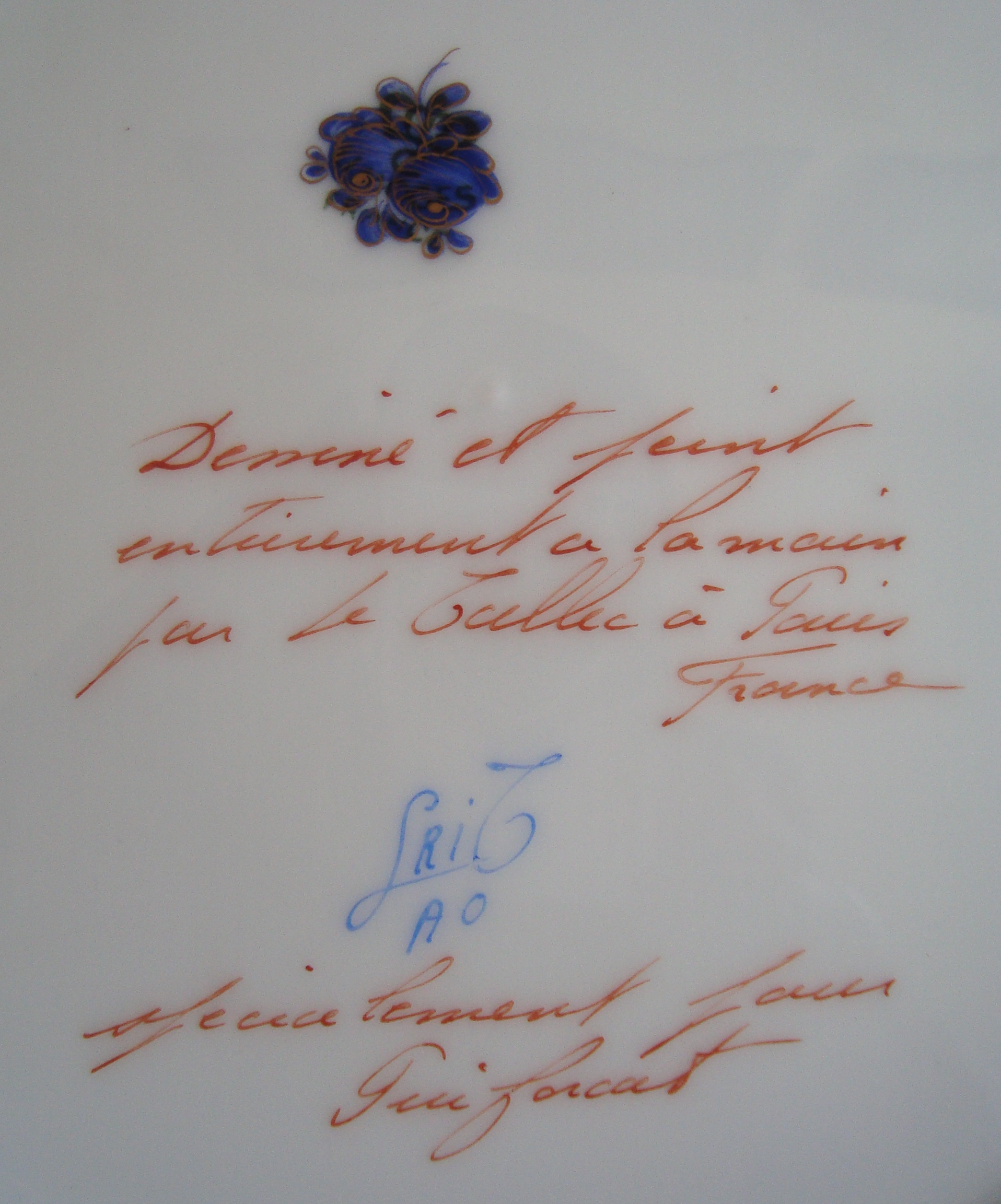 Marks of Camille Le Tallec's porcelains